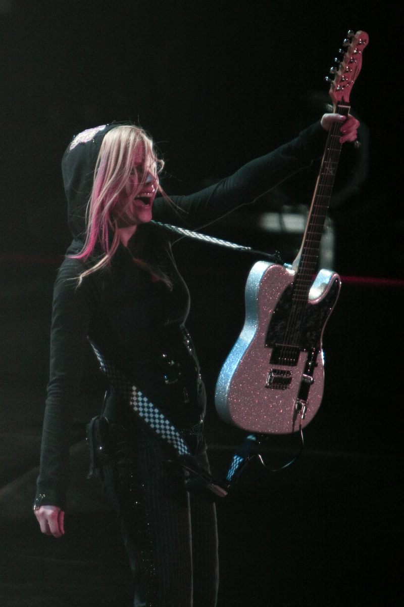 Avril Lavigne "The Best Damn Tour" @ Beijing Wukesong Arena